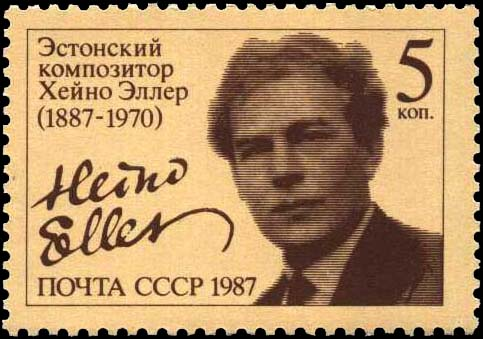 Estonian composer Heino Eller